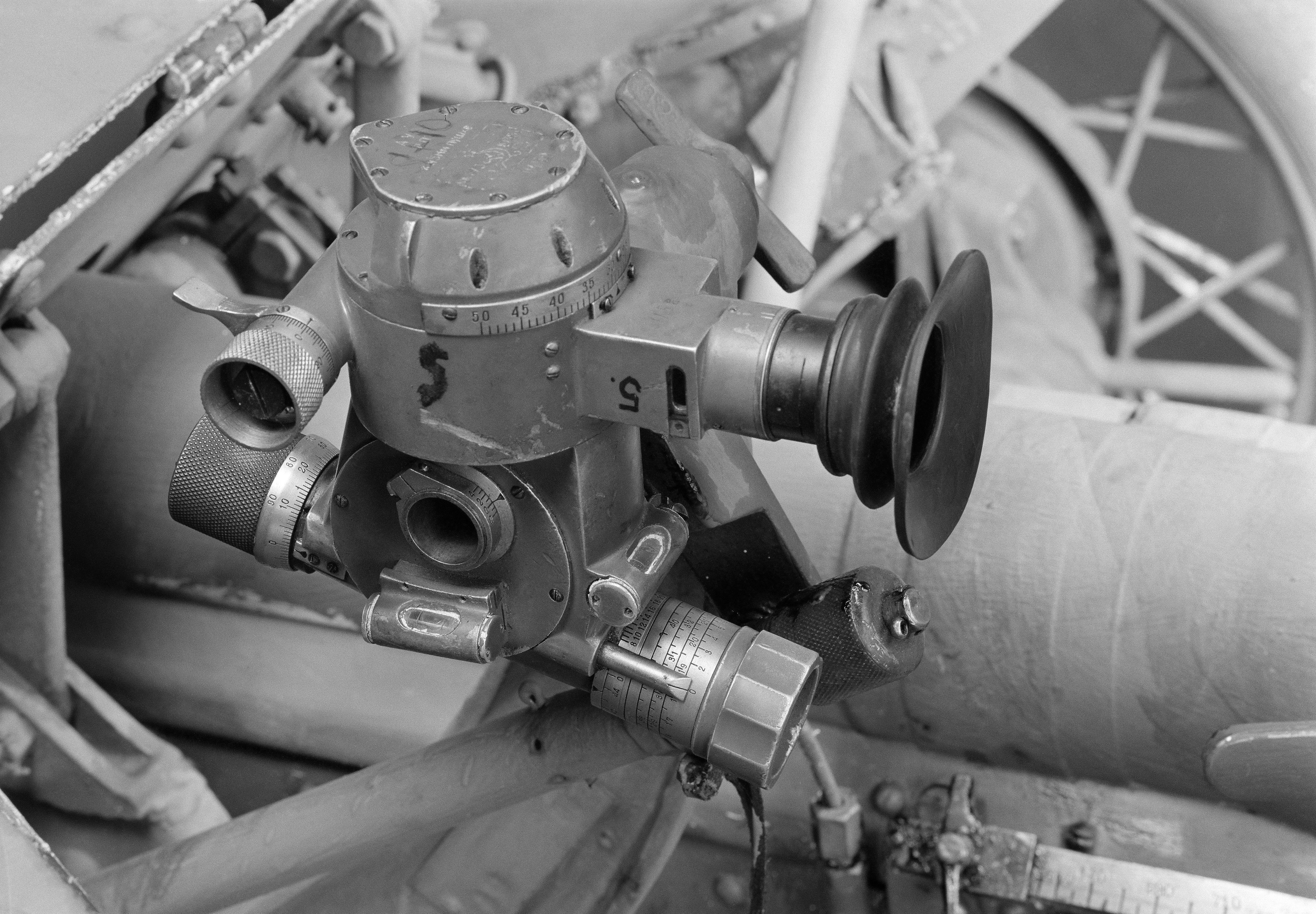 Optical gun sight of Soviet 45 mm M1937 (53-K) anti-tank gun in Finnish service (45 K/37)